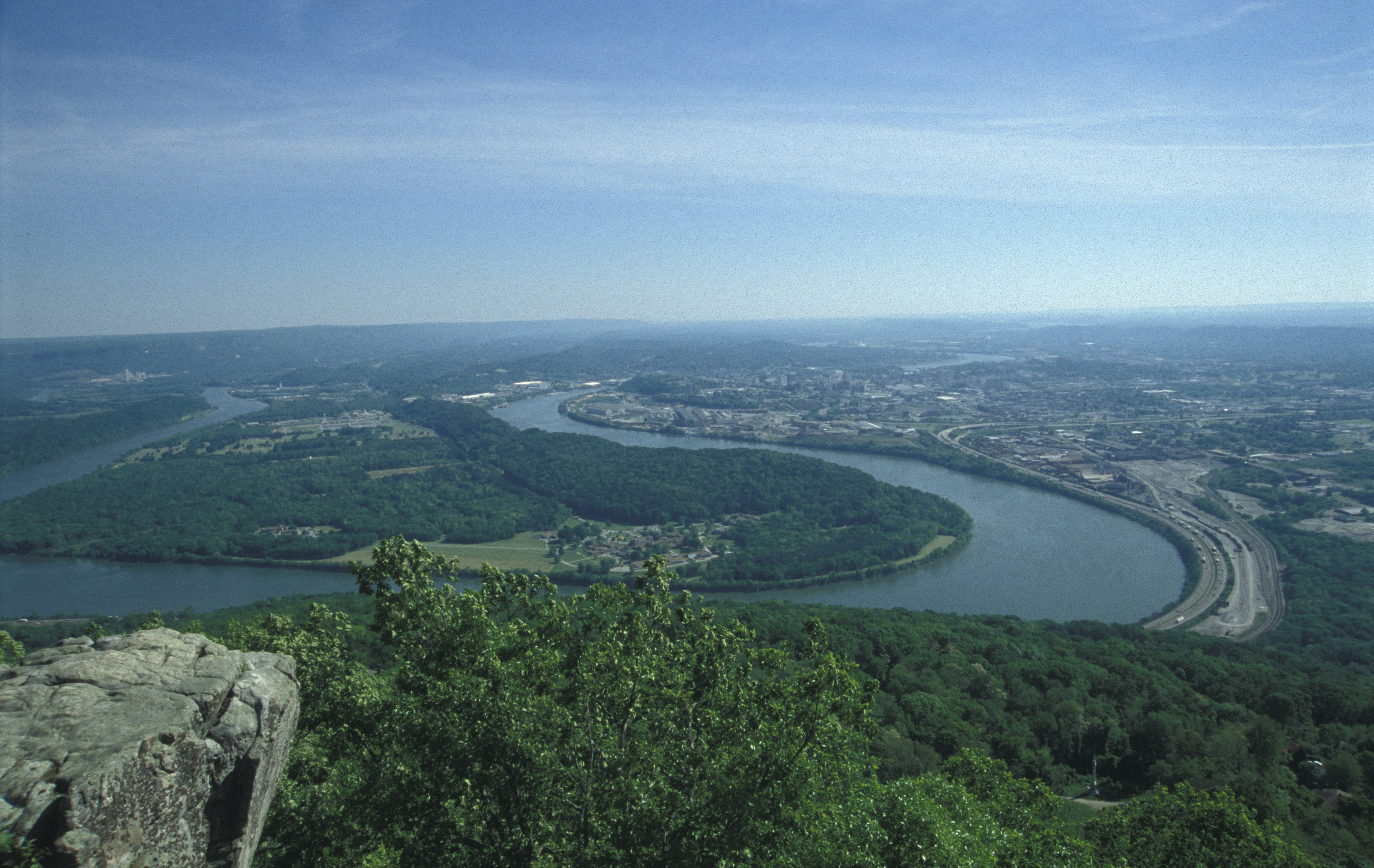 Chattanooga (city), Tennessee, USA, view from Lookout Mountain